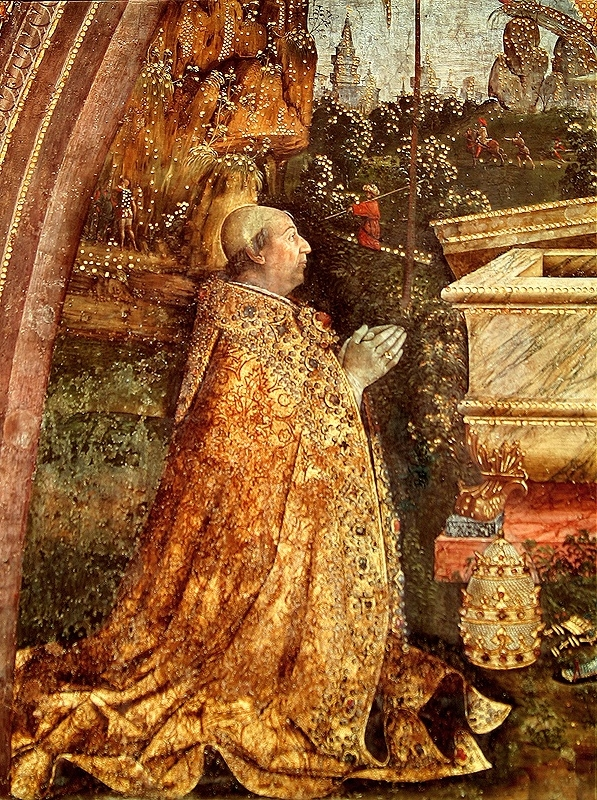 Pope Alexander VI. (Rodrigo Borgia) Detail from a Fresco of the Resurrection, painted in 1492 - 1495 by Pinturicchio